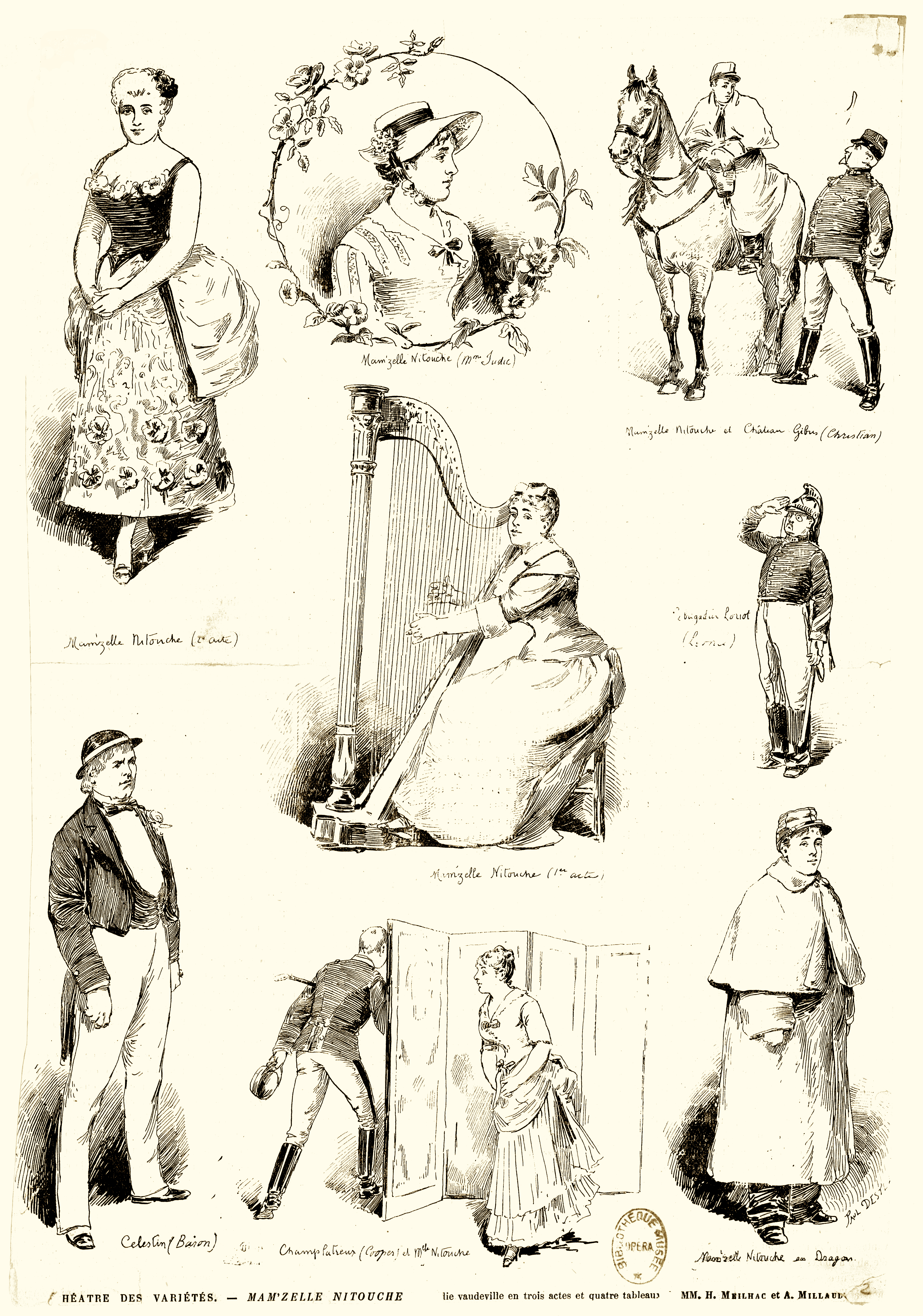 Gravure sur bois de Paul Destez pour Mam'zelle Nitouche : vaudeville-opérette in three acts by Hervé on a libretto by Henri Meilhac and Albert Millaud. - Paris : Théâtre des Variétés, 26-01-1883.